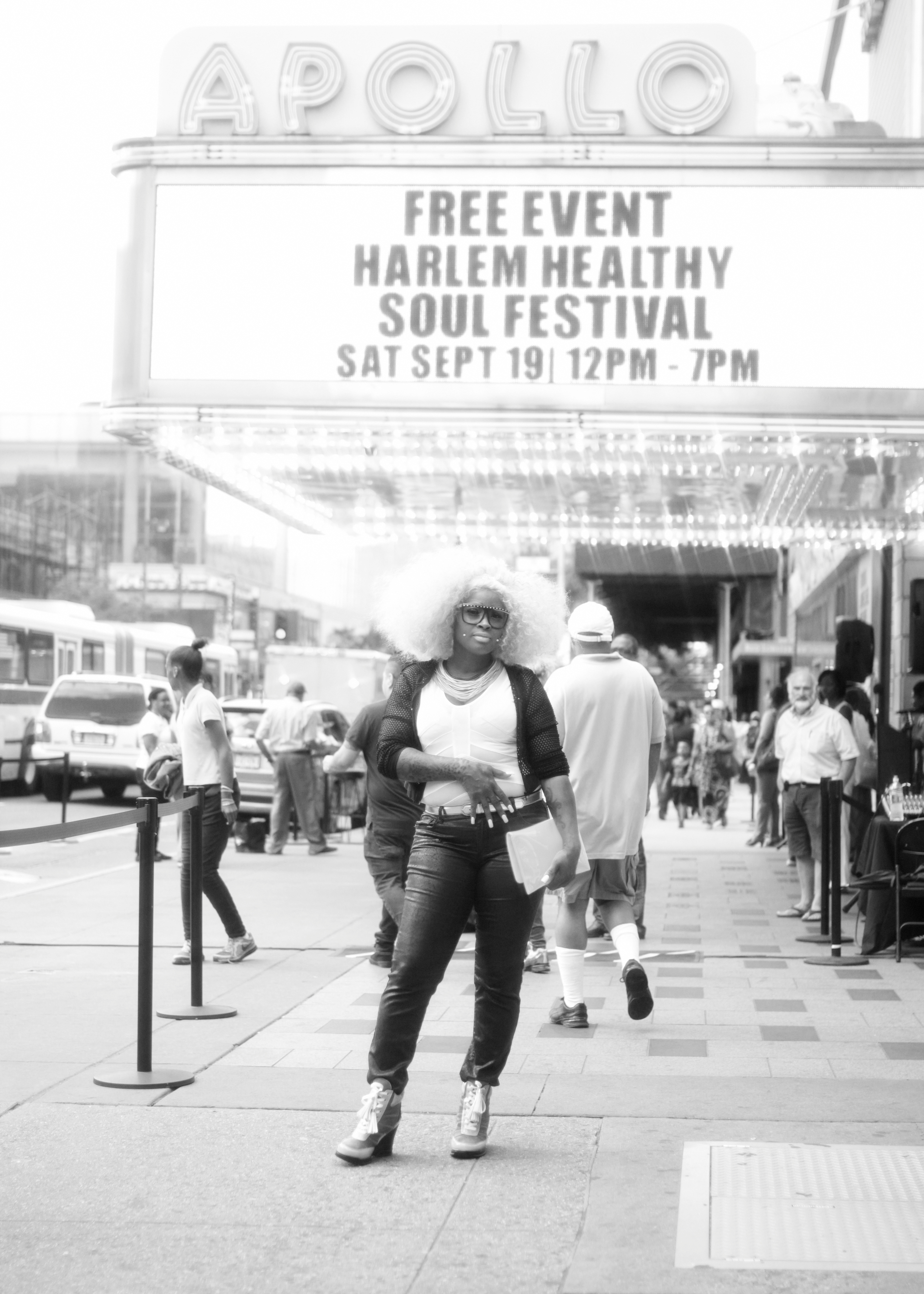 Apollo Theater, NYC.